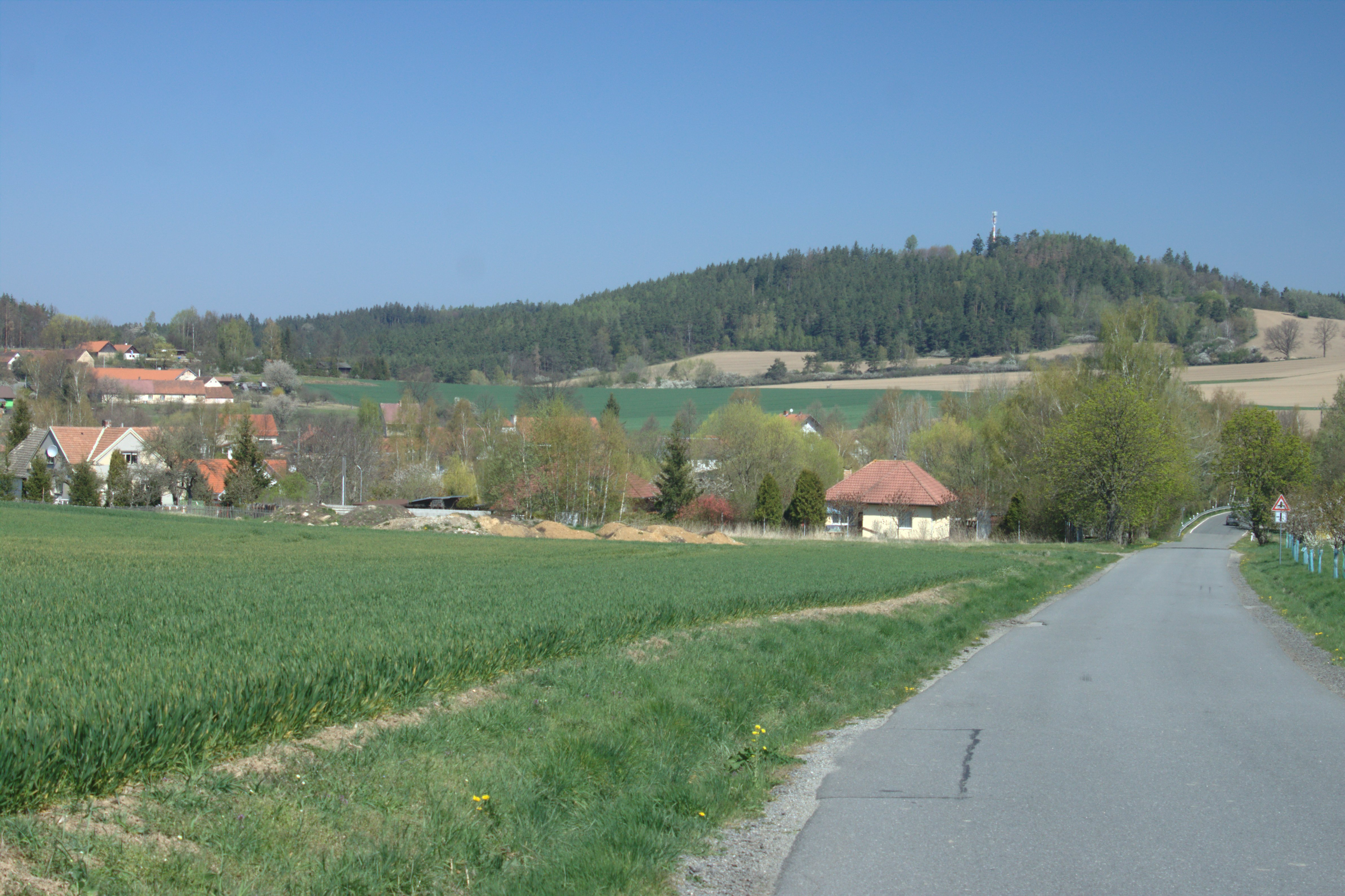 This photograph was created as a part of Wikiexpedition Mladá Vožice, a project supported by Wikimedia Foundation grant.